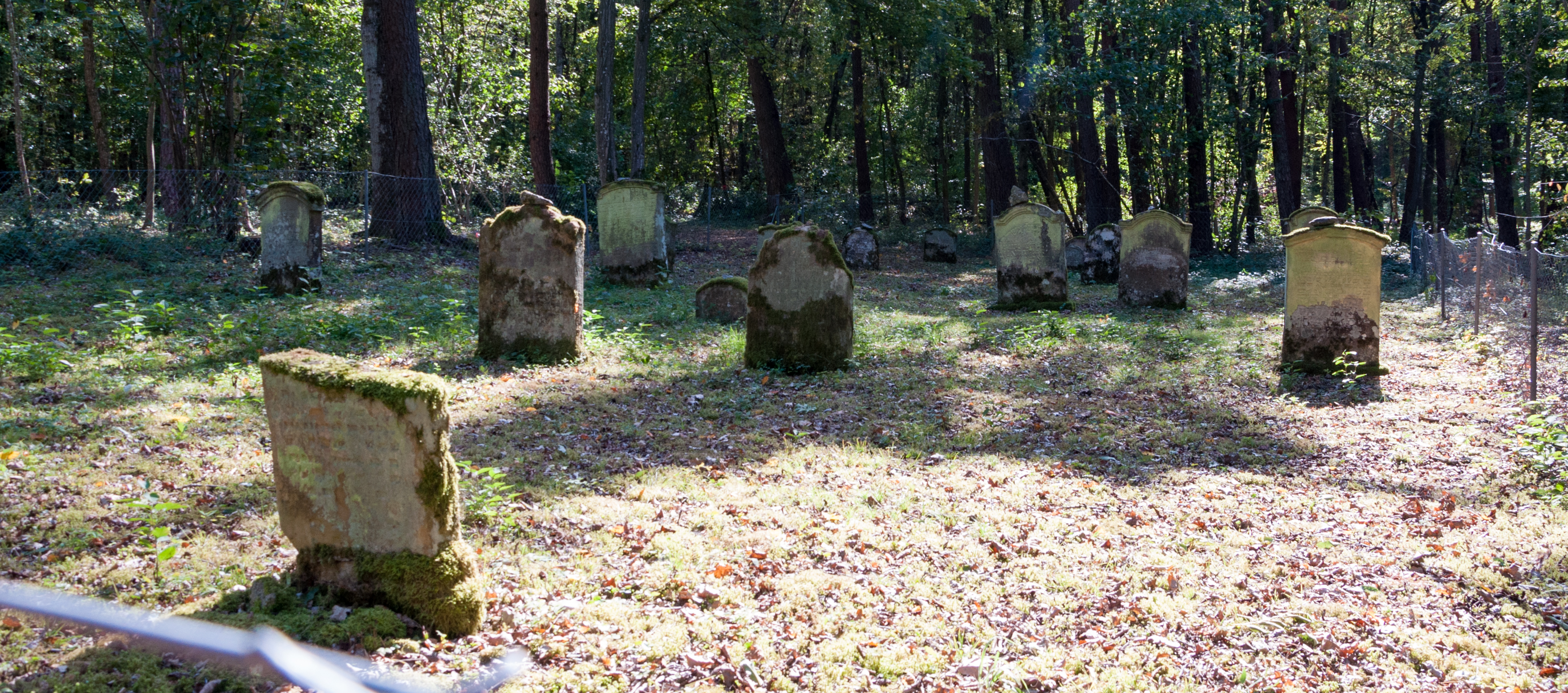 Jewish cemetery near Dörzbach-Laibach, Germany